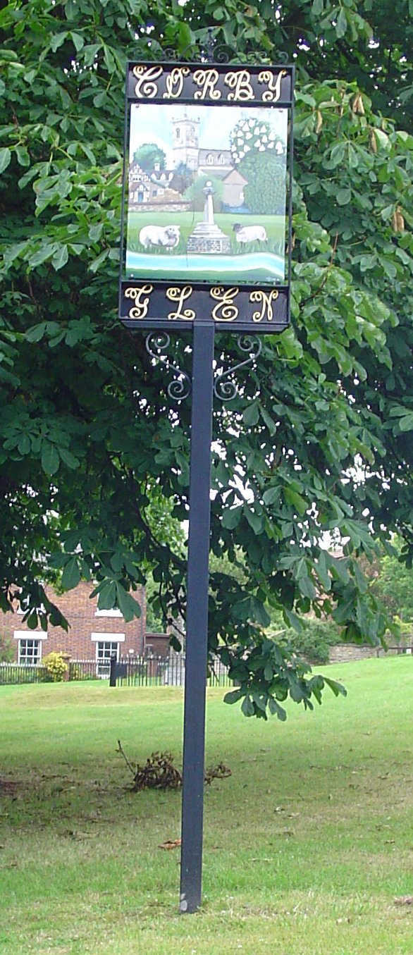 Signpost in Corby Glen